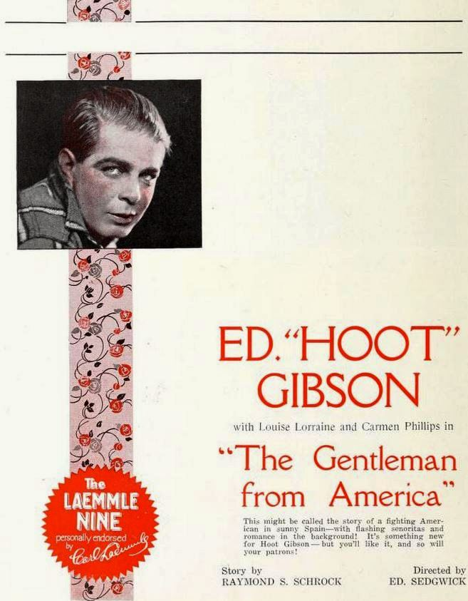 Ad for the American comedy film The Gentleman from America (1923) with Hoot Gibson, on page 32 of the December 2, 1922 Universal Weekly.